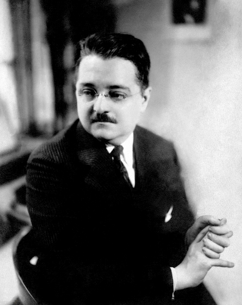 Photograph of Alexander Woollcott